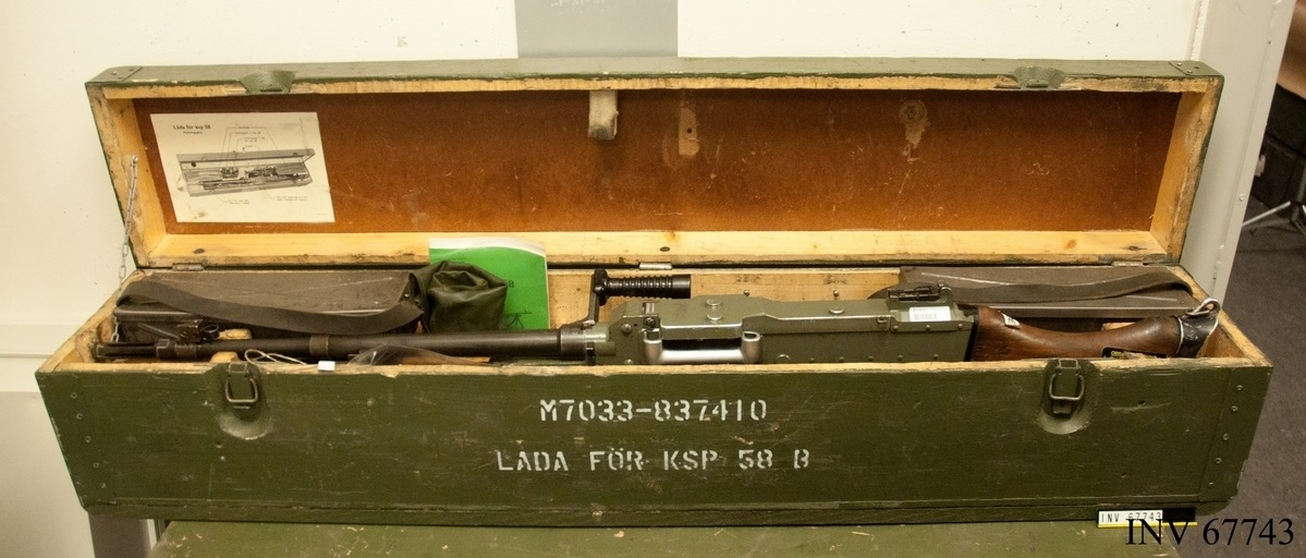 The Kulspruta 58B (Ksp 58B) machine gun, chambered in 7.62 mm NATO, is a Swedish version of the FN MAG. This specimen has production number 6153 stamped on it. Seen here with it's case. From the Swedish Army Museum collections.